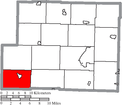 Map of the municipal and township boundaries of Harrison County, Ohio, United States, as of the 2000 census, with the location of Freeport Township highlighted. Township borders are shown only in unincorporated areas in order to differentiate incorporated and unincorporated areas more clearly.